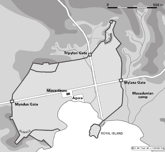 Map of Halicarnassus